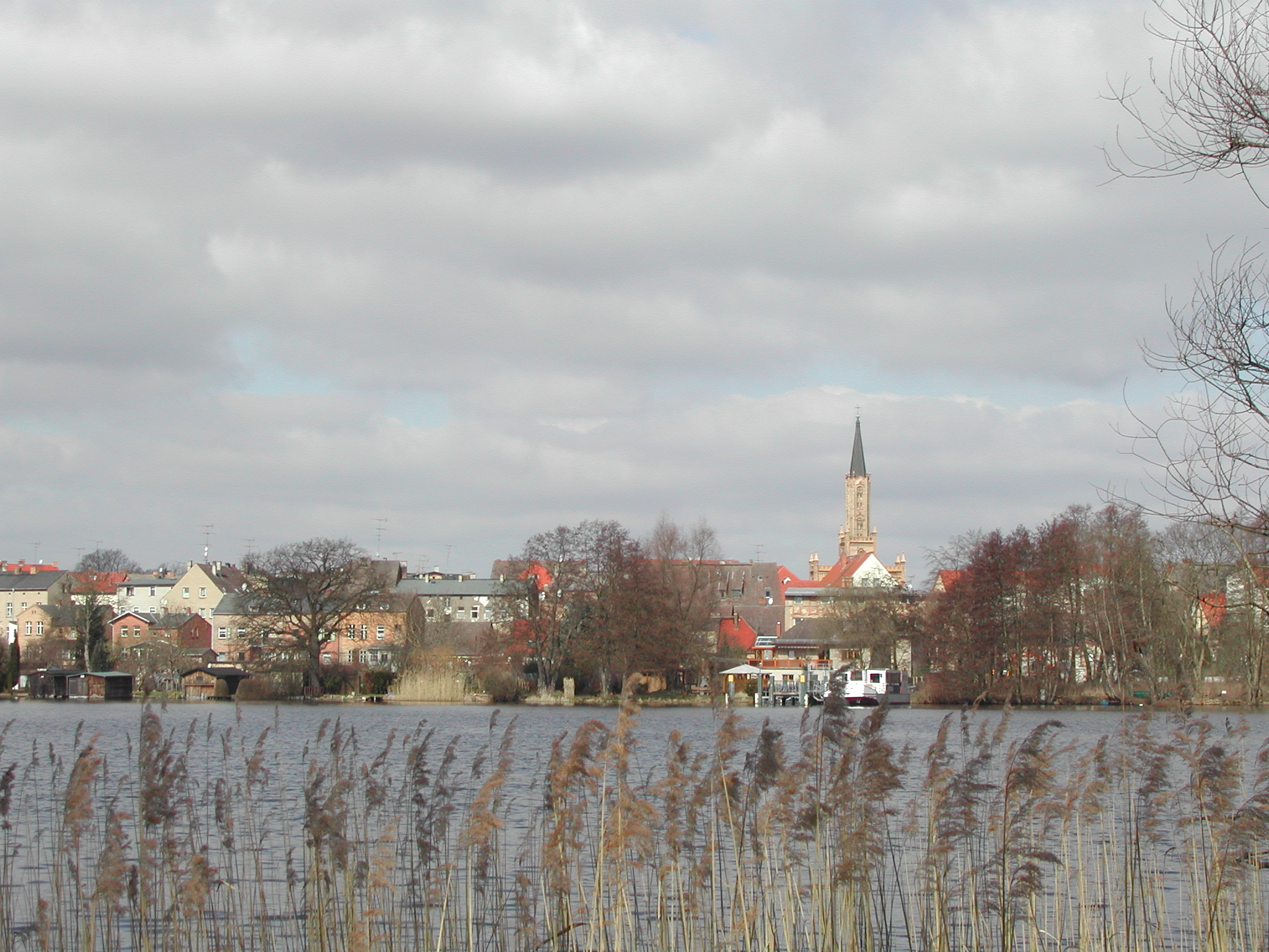 This picture shows the steeple and the lake Baalensee in Fürstenberg/Havel, Germany.